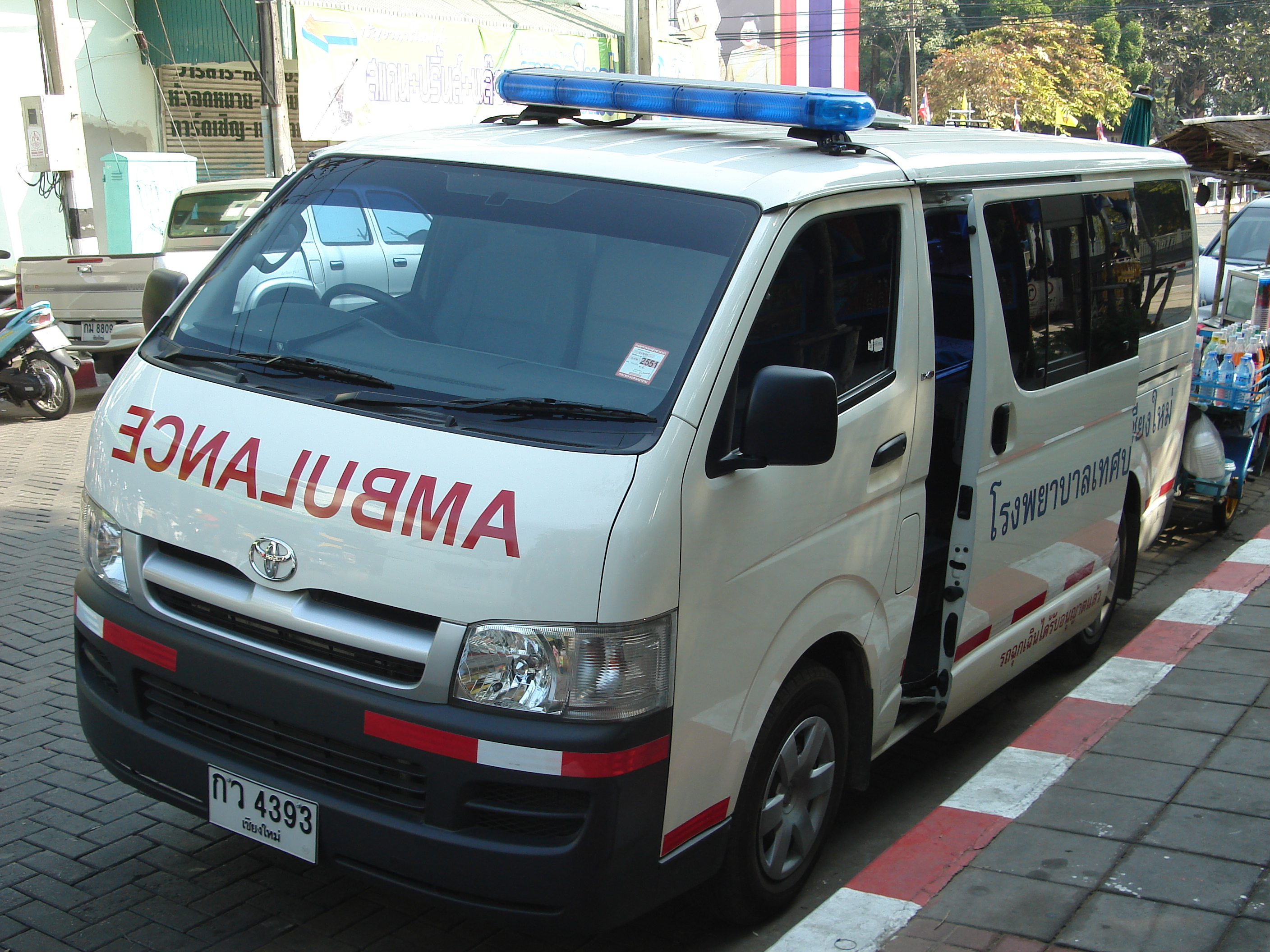 Toyota Hiace -- ambulance -- Chiangmai, Thailand, with "AMBULANCE" in mirror writing ("ECNALUBMA").